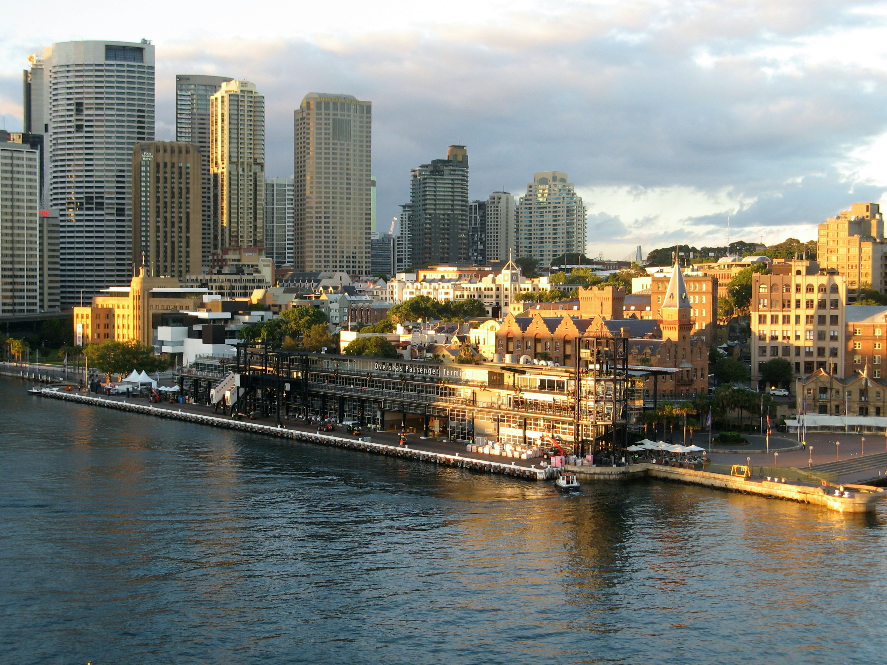 Overseas Passenger Terminal, adjacent to Circular Quay, Sydney Cove, Sydney